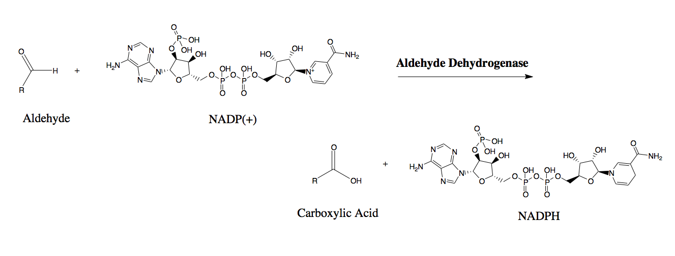 Stoichiometry of ALDH3A1 aldehyde metabolism